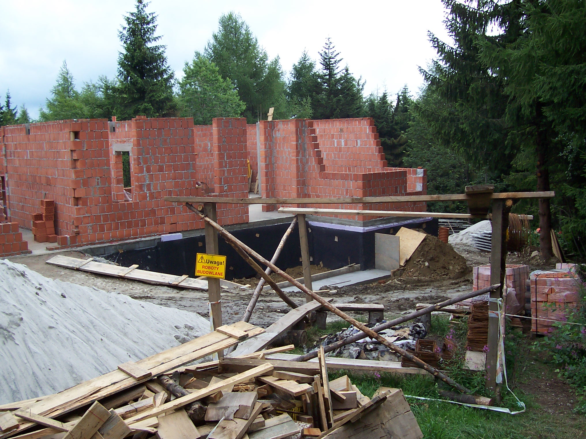 Poland, Lubomir Mountain. New astronomical observatory being constructed with damage to local environoment.